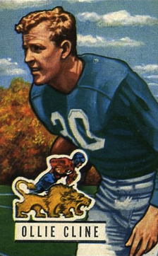 Ollie Cline, American football fullback, on a 1951 Bowman football card